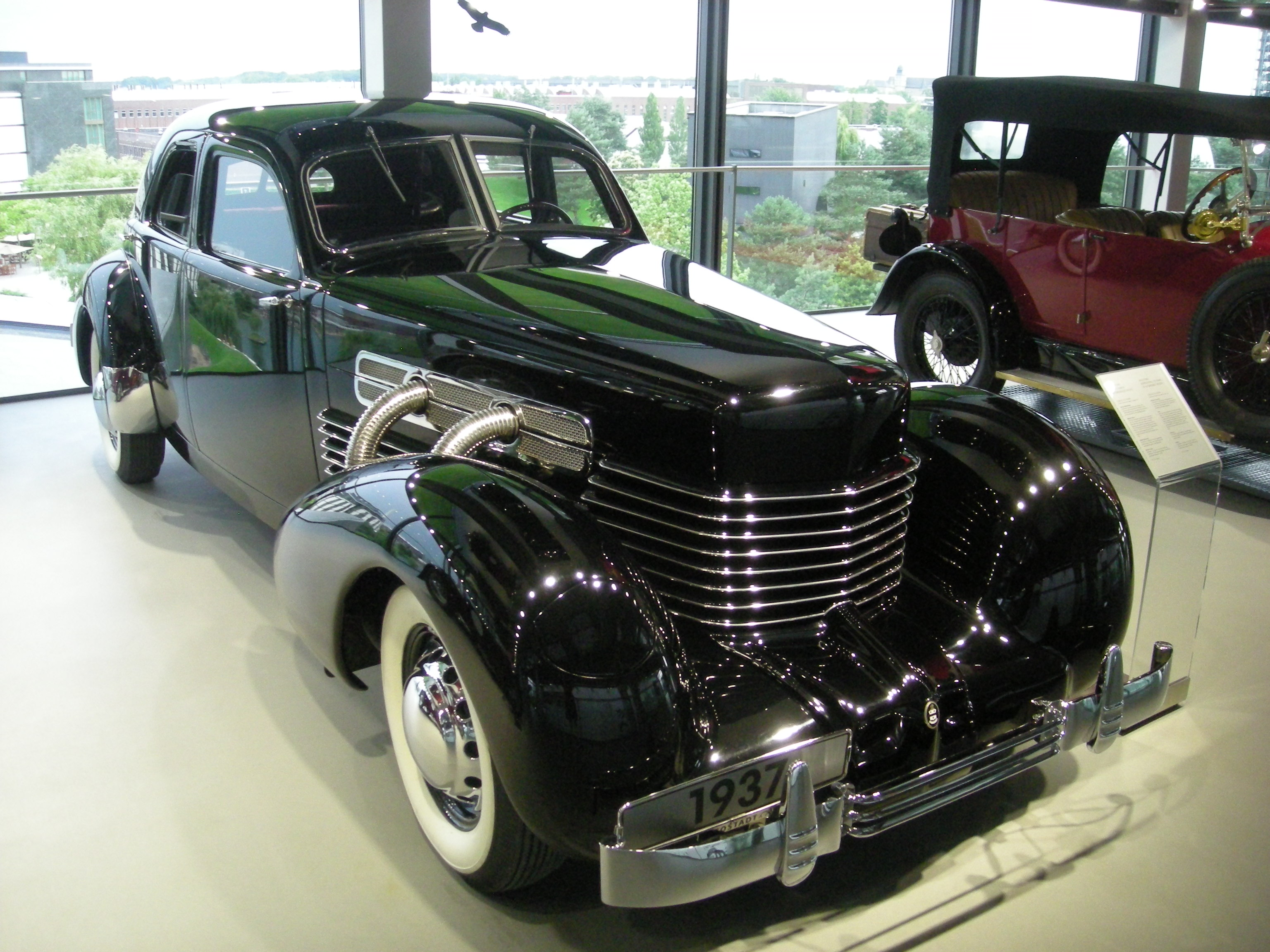 A 1937 Cord 812 S/C Sedan inside the ZeitHaus at Autostadt in Wolfsburg, Niedersachsen (Germany).